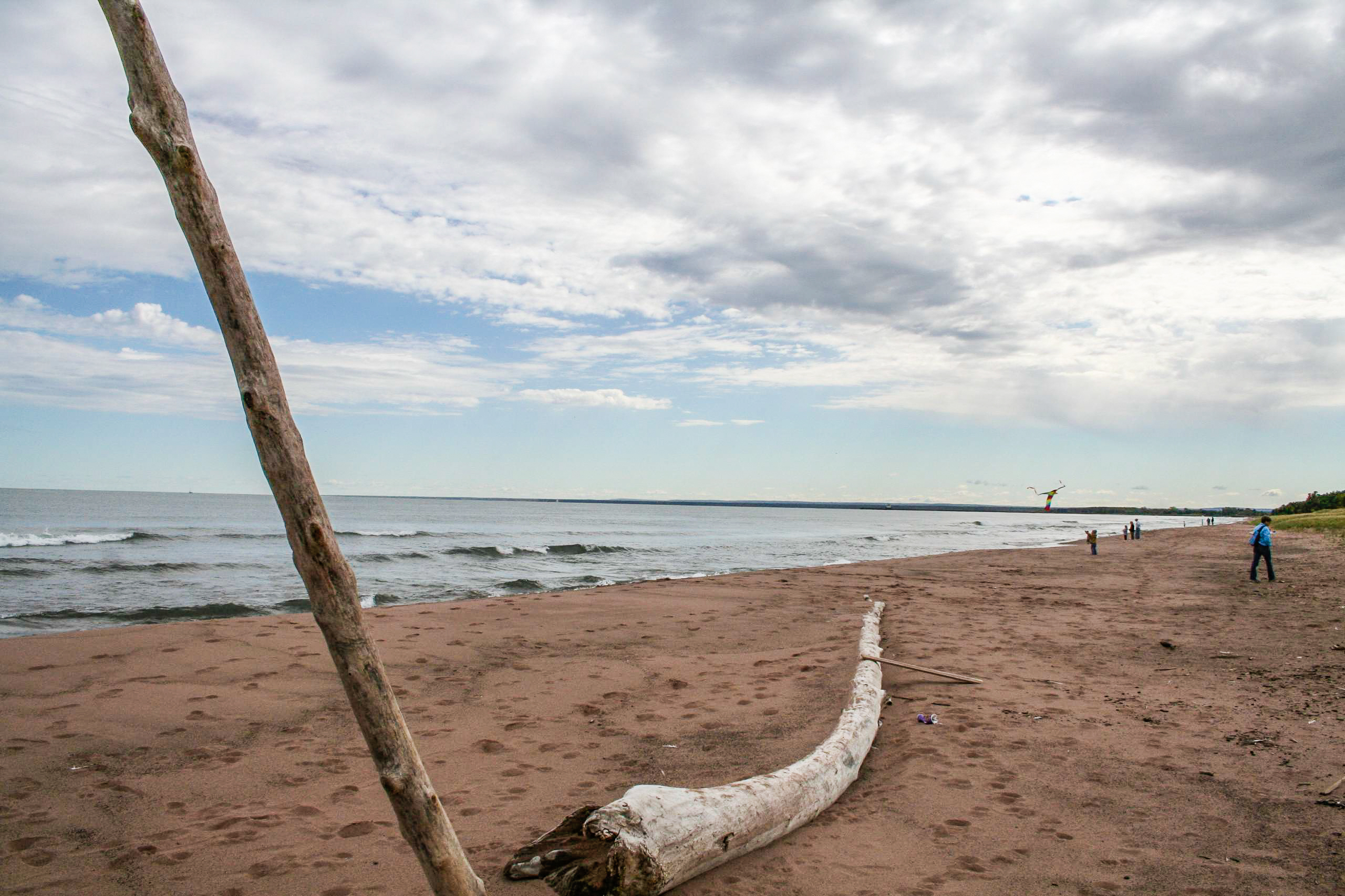 Park Point Beach in Duluth, Minnesota.